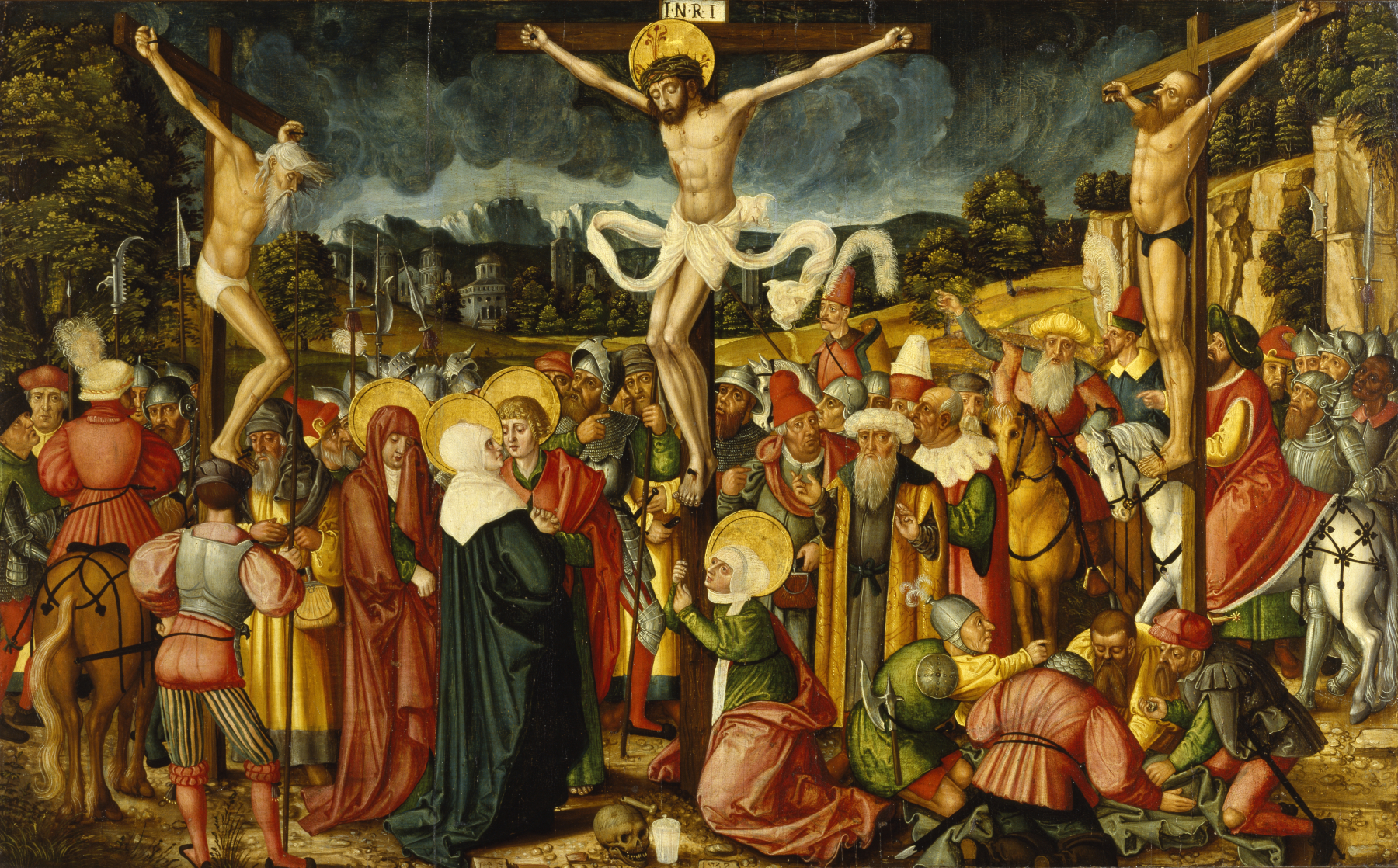 This is the only identified religious painting by Peter Gertner, who was best known as a portrait artist. Here he uses the skills he honed as a portraitist to introduce distinctive details of costumes, facial expressions, and gestures for both the historical and contemporary figures gathered beneath the Cross. The crowd includes men of many origins: Jewish, Turkish, German, and African. This diversity would both intrigue the viewer and remind him or her of the universal message of the scene. Gertner's monogram consists of a spade with his initials. It is a play on his name, a variation on "gardener" in German.